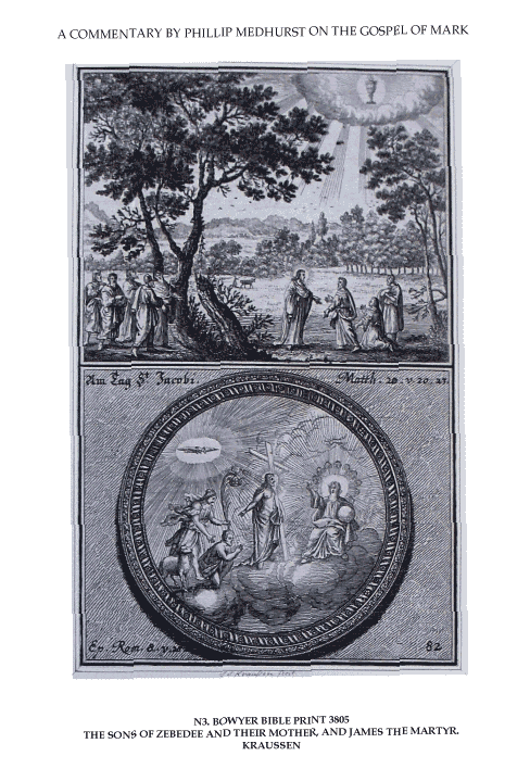 The sons of Zebedee and their mother, and James the martyr. Kraussen. In the Bowyer Bible in Bolton Museum, England. Print 3805. From “An Illustrated Commentary on the Gospel of Mark” by Phillip Medhurst. Section N. true glory. Mark 10:35-45.